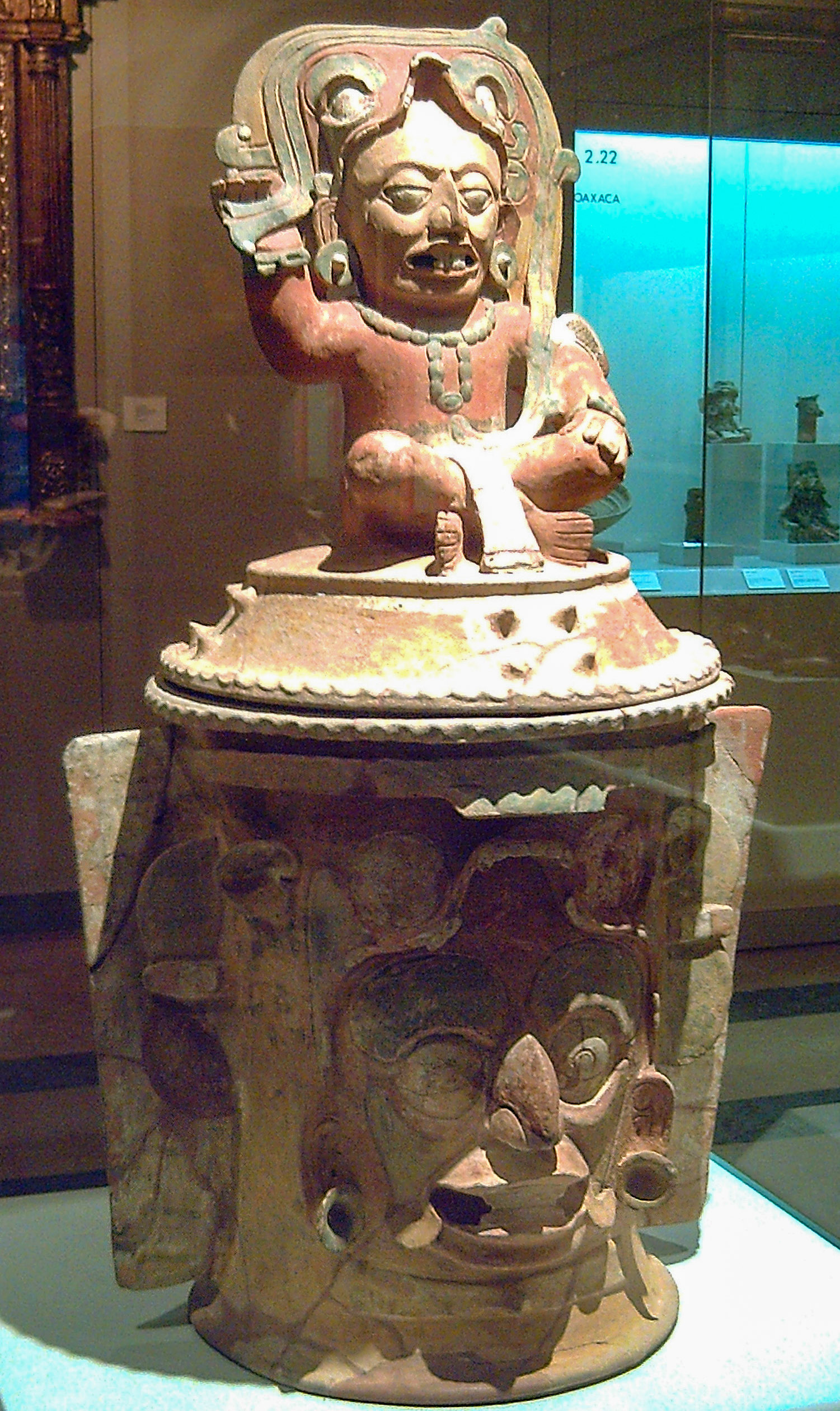 A Maya cinerary urn representing solar god Kinich Ahau, and with an image of the departed in the lid. Late Classical Period.